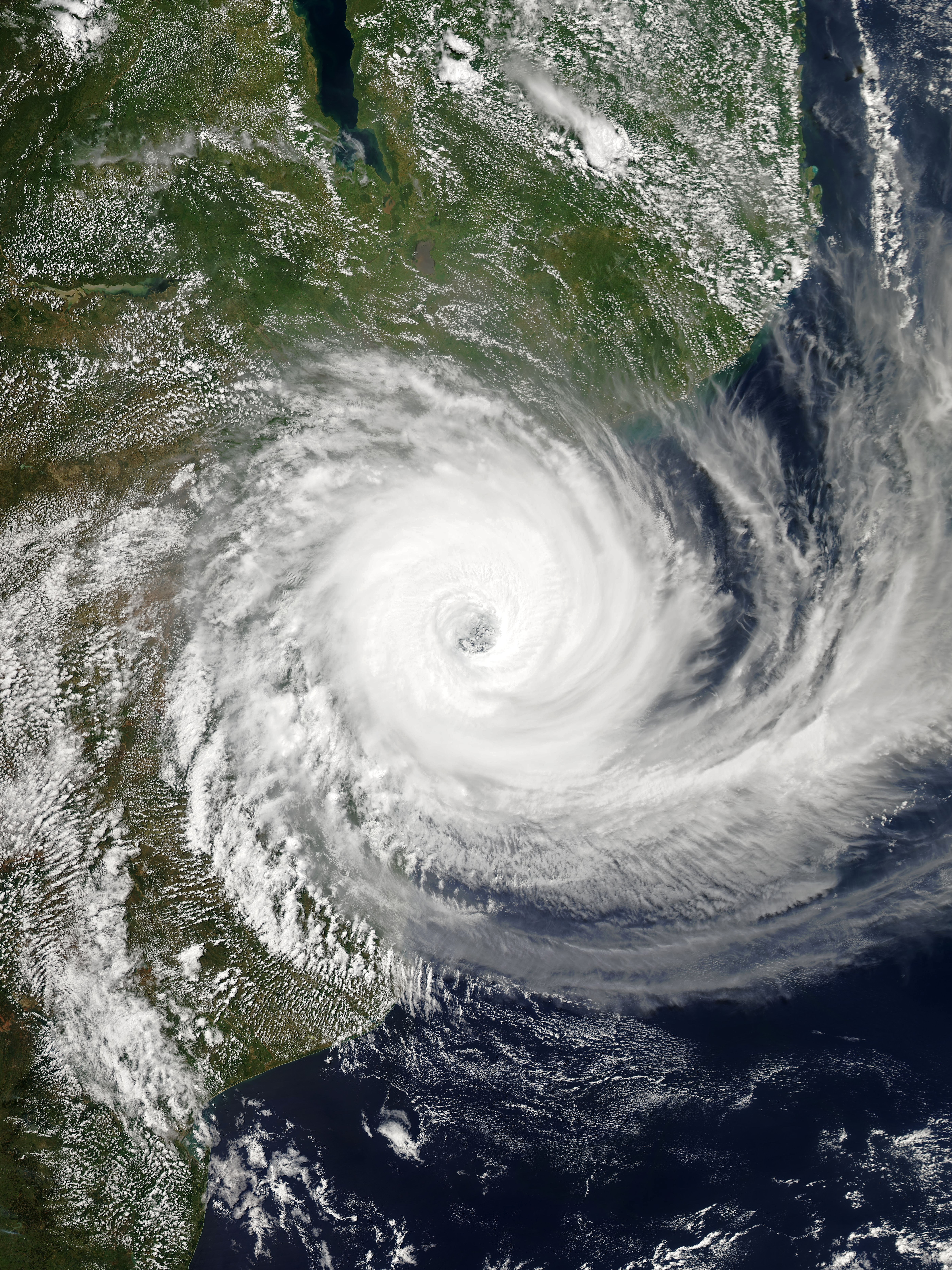 Intense Tropical Cyclone Idai approaching the Sofala province of Mozambique on 14 March 2019, shortly after reaching its peak intensity.